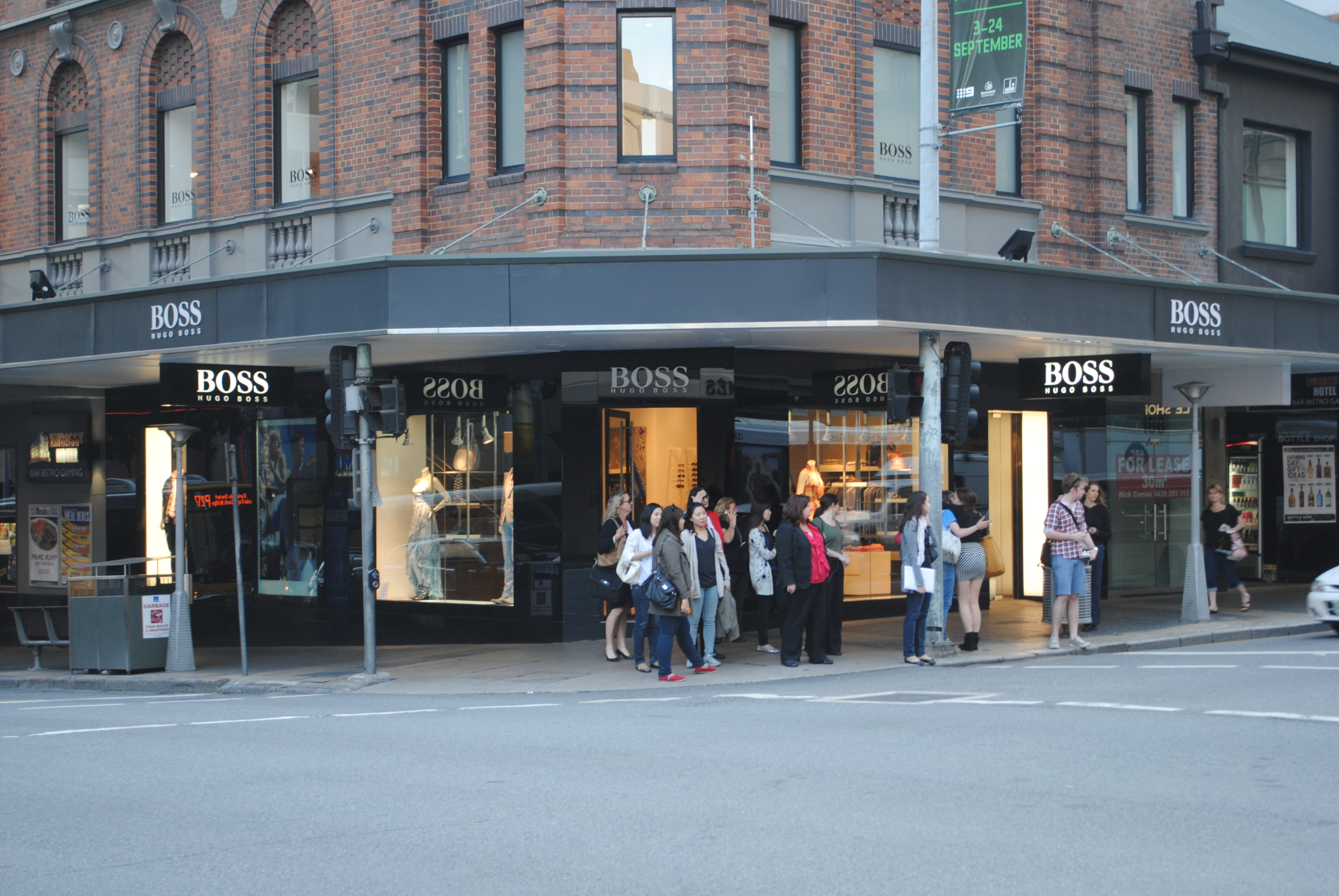 Fully imported from USA by Hugo Boss Store, Edward Street, Brisbane City